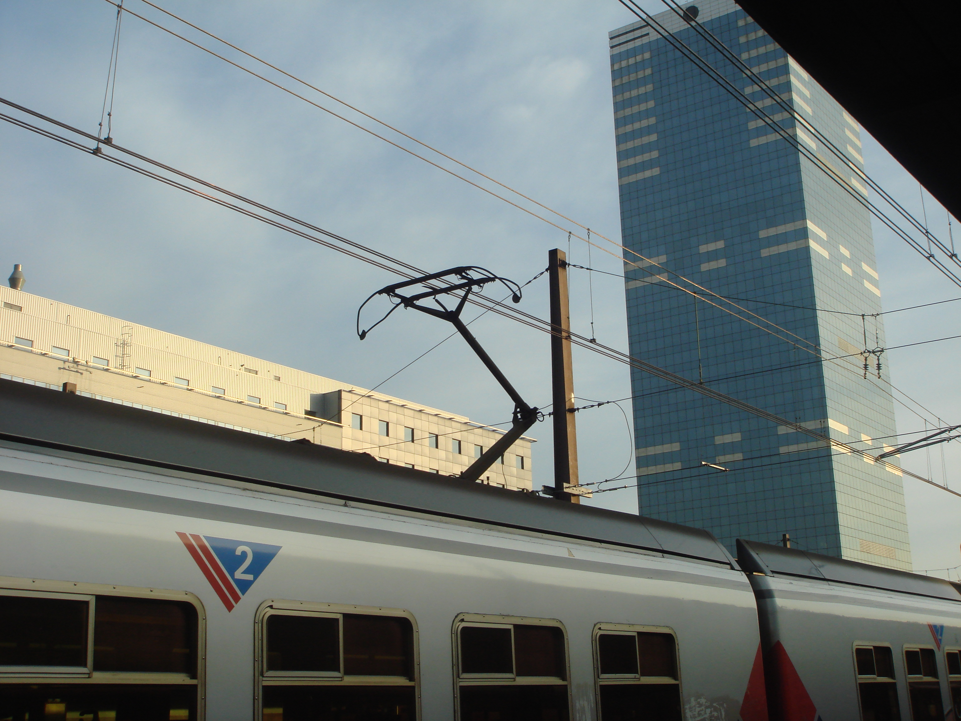 The Brecknell Willis pantograph of the NMBS EMU number 437